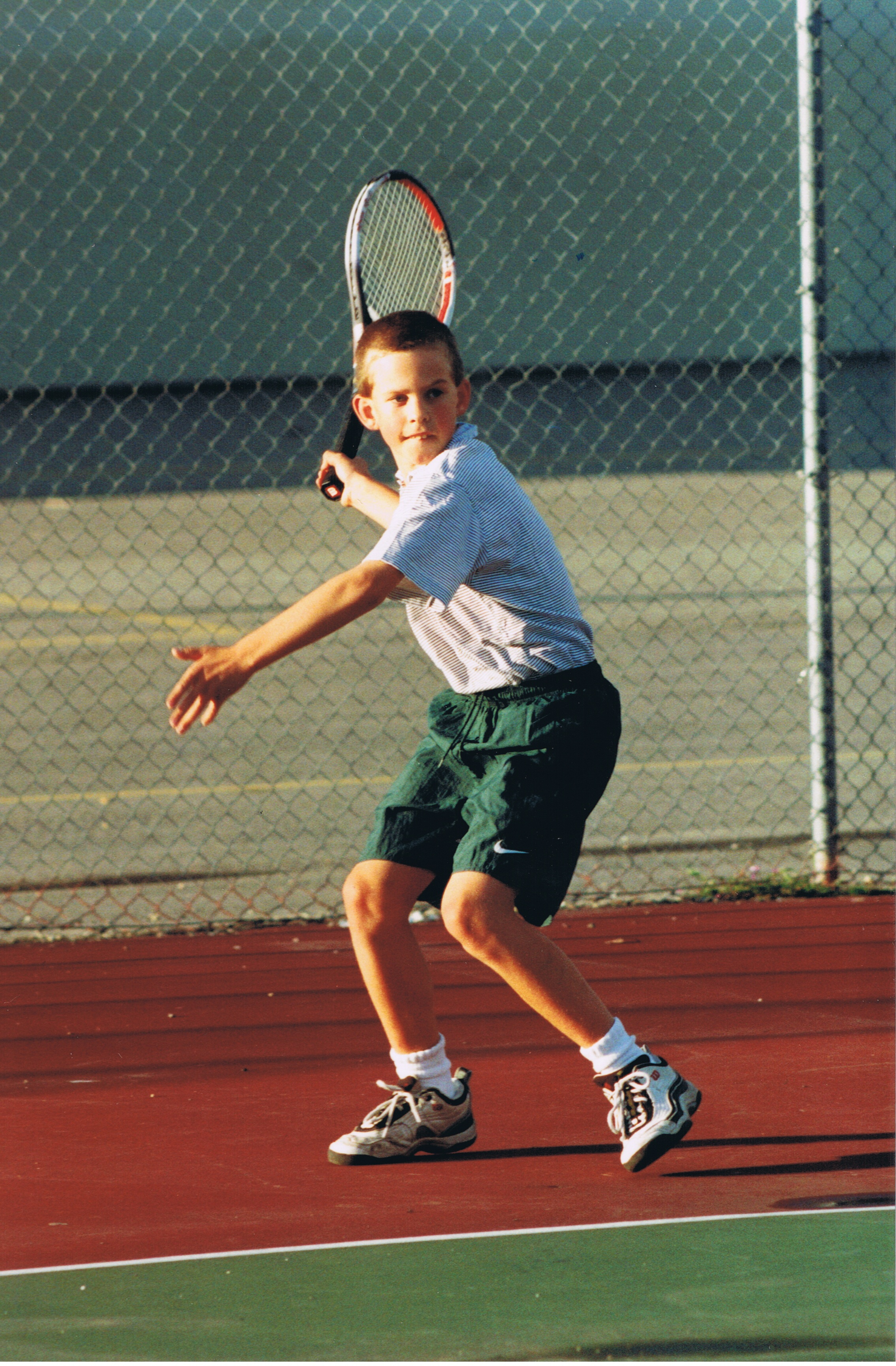 A young Vasek Pospisil trains on his home court in Vernon, BC.